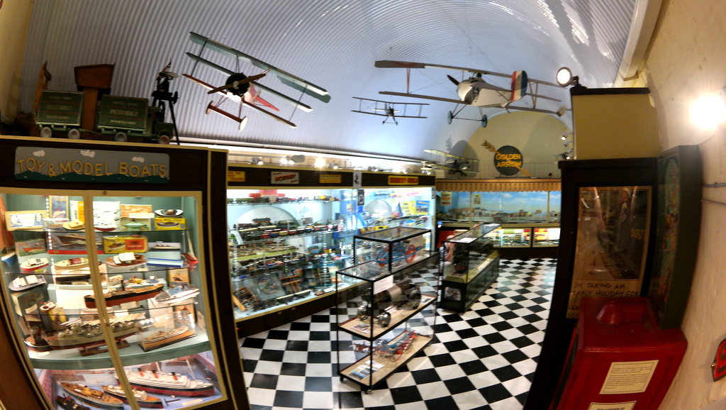 Interior of Brighton Toy and Model Museum, Arch Four display space.